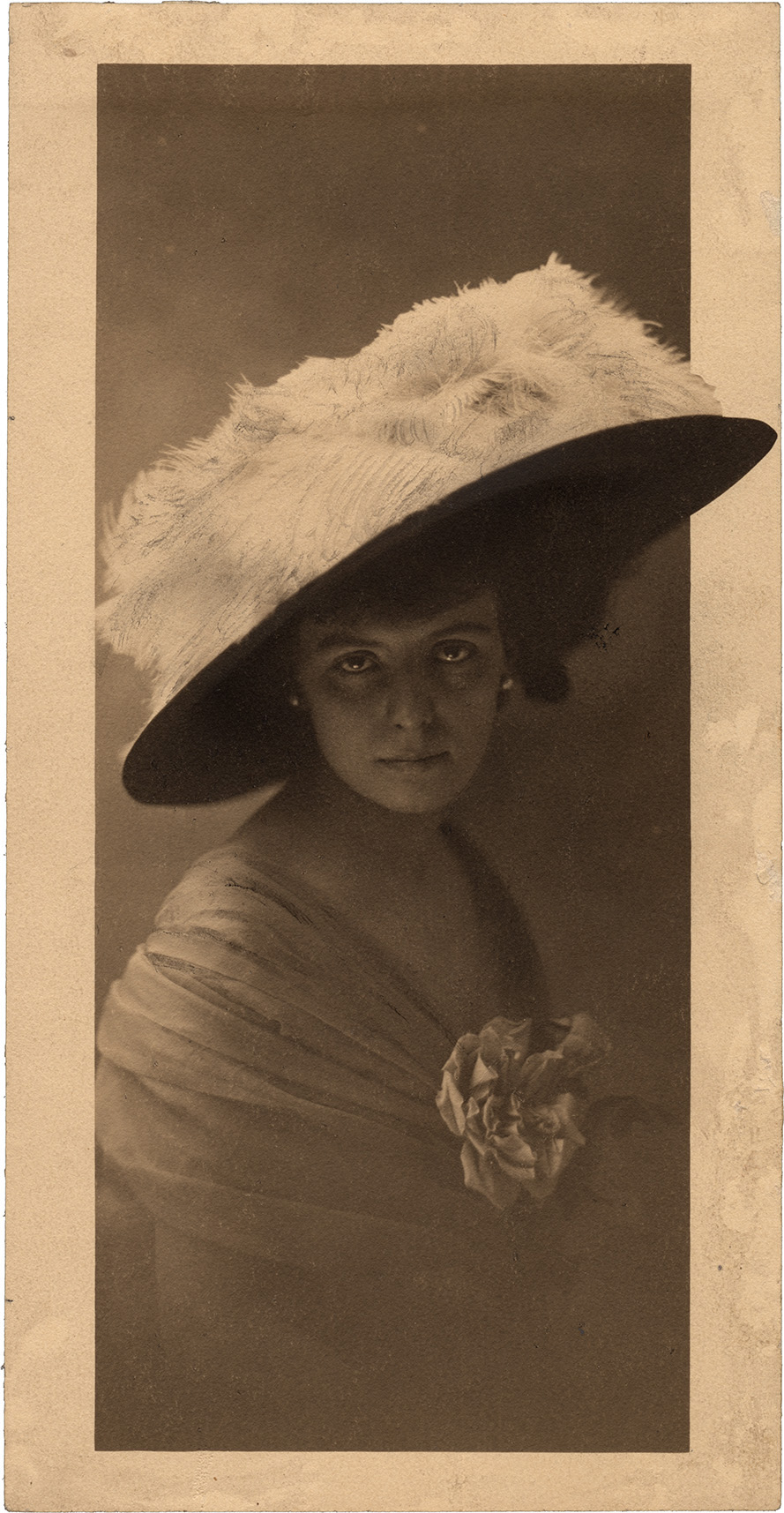 Portrait of Cia Fornaroli Toscanini, dancer (1888-1954), before 1954.